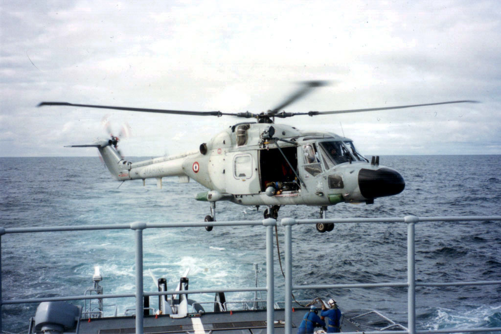 A Westland WG-13 Lynx "Molock" of french Aéronavale decking on the anti-submarine frigate Latouche-Tréville (D646)